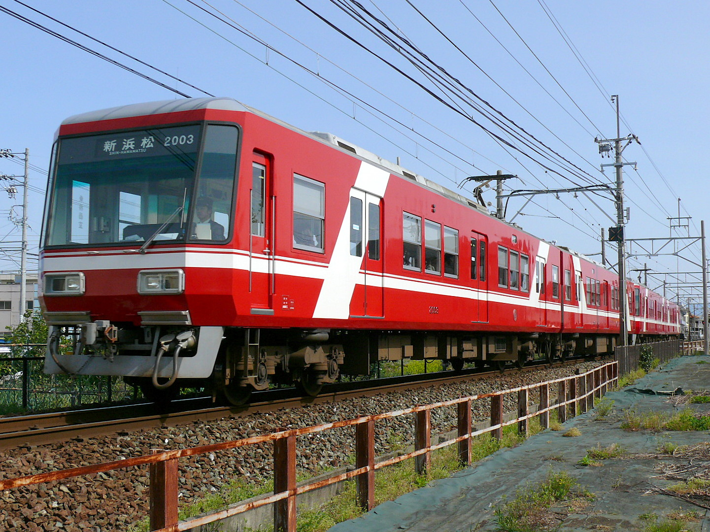 Enshu Railway Line.